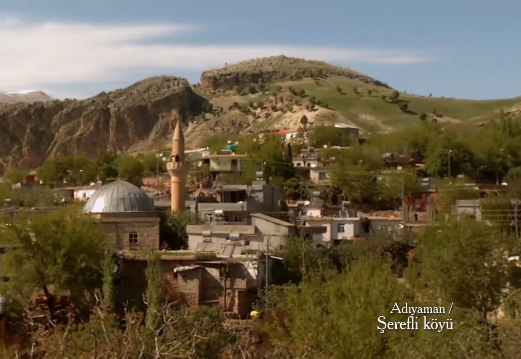 Skyline of Serefli vilalge